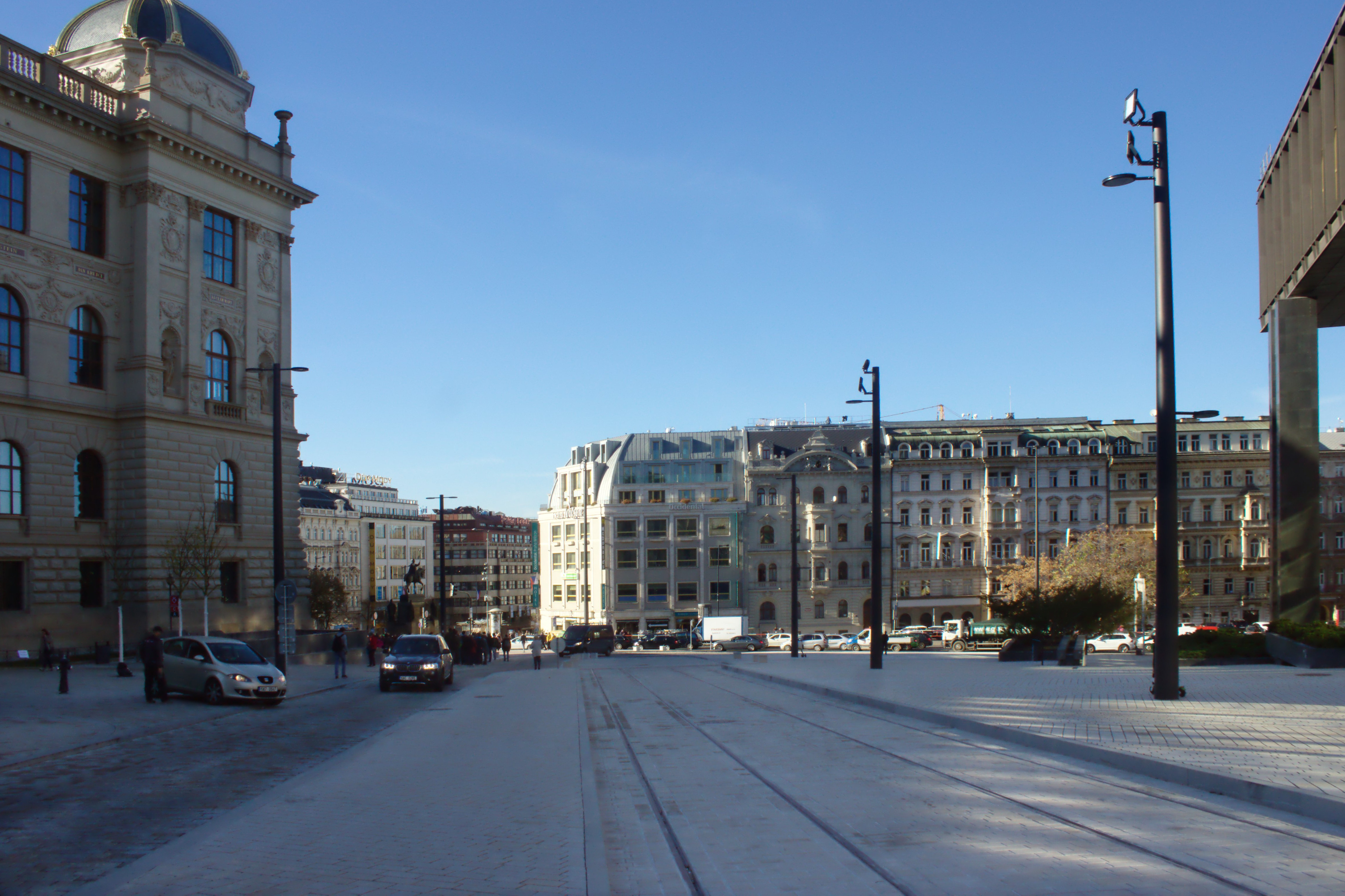 A renovated street near the National Museum in Prague, CZ